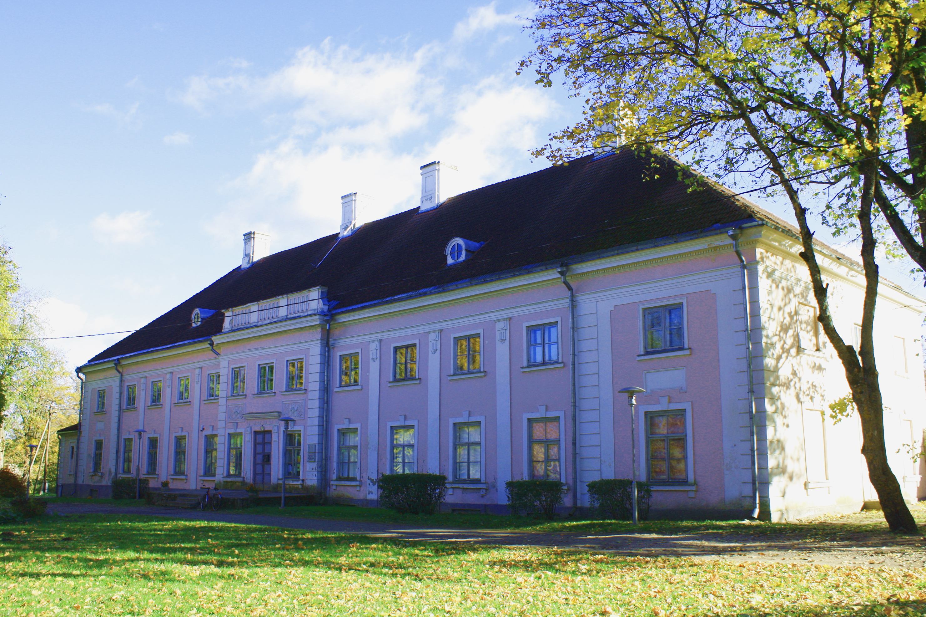 Anija manorhouse